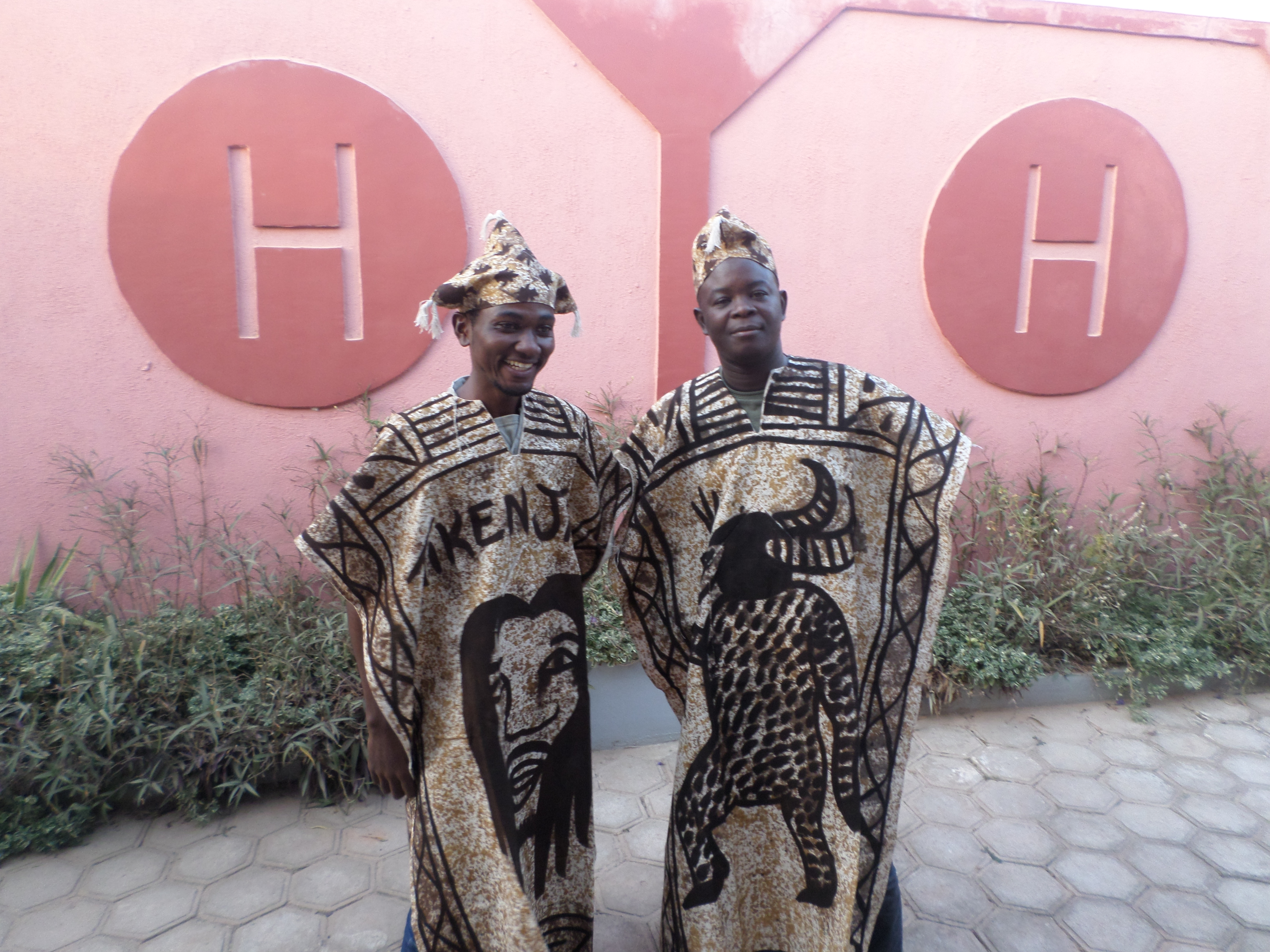 This is an image of Cultural Fashion or Adornment from Ivory Coast